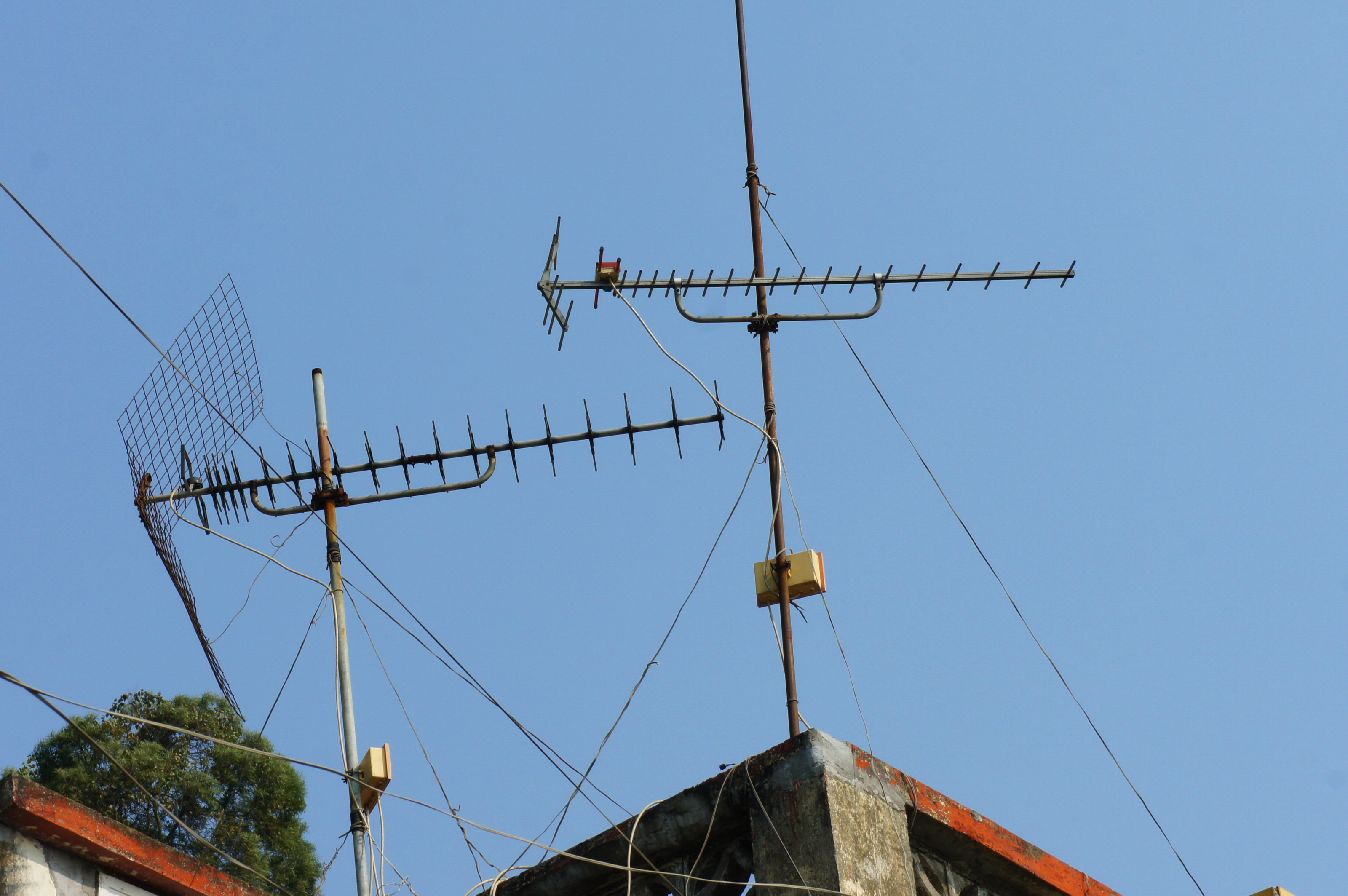 Yagi-Uda antenna